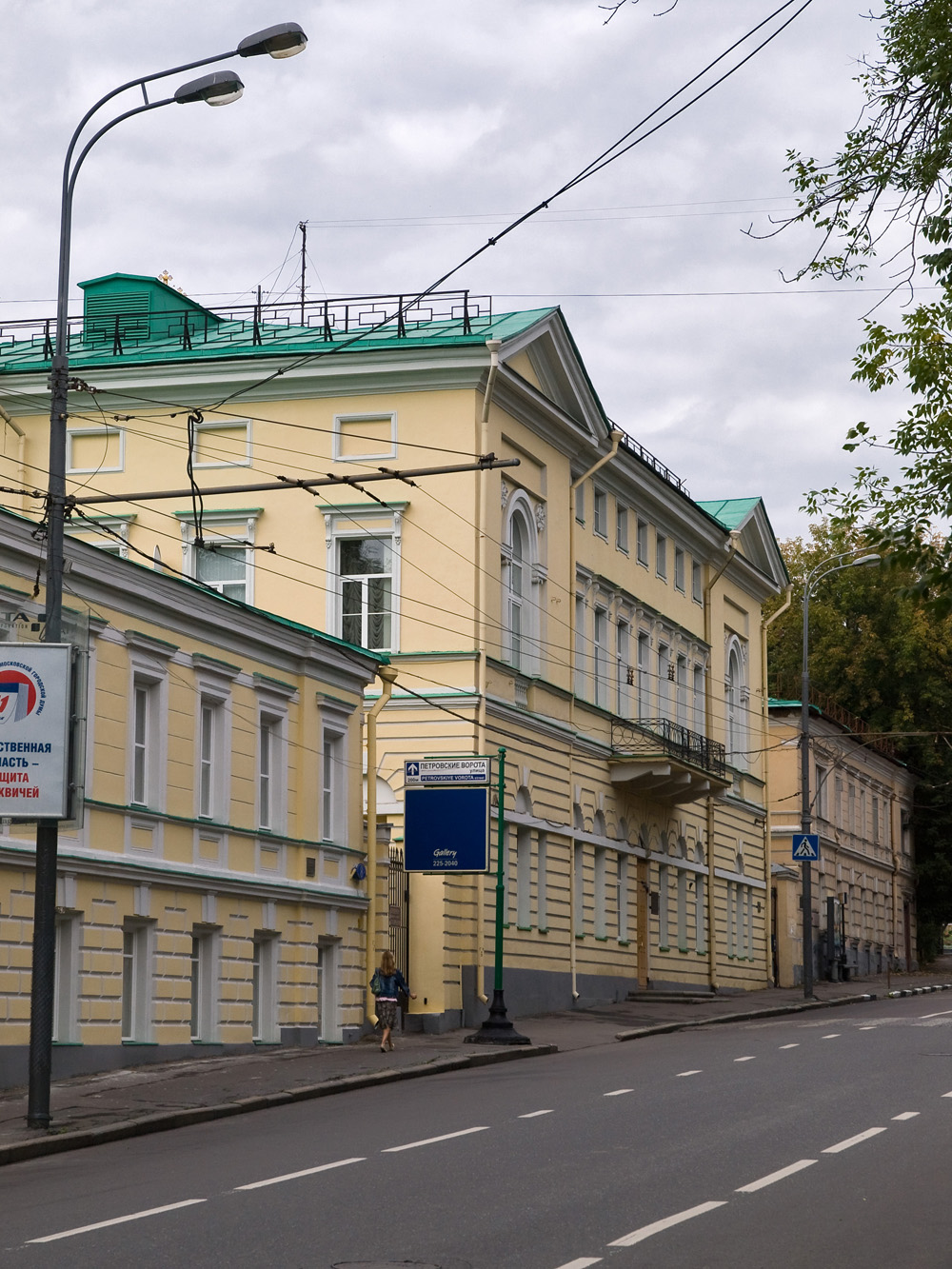 Petrovsky Boulevard, Moscow.